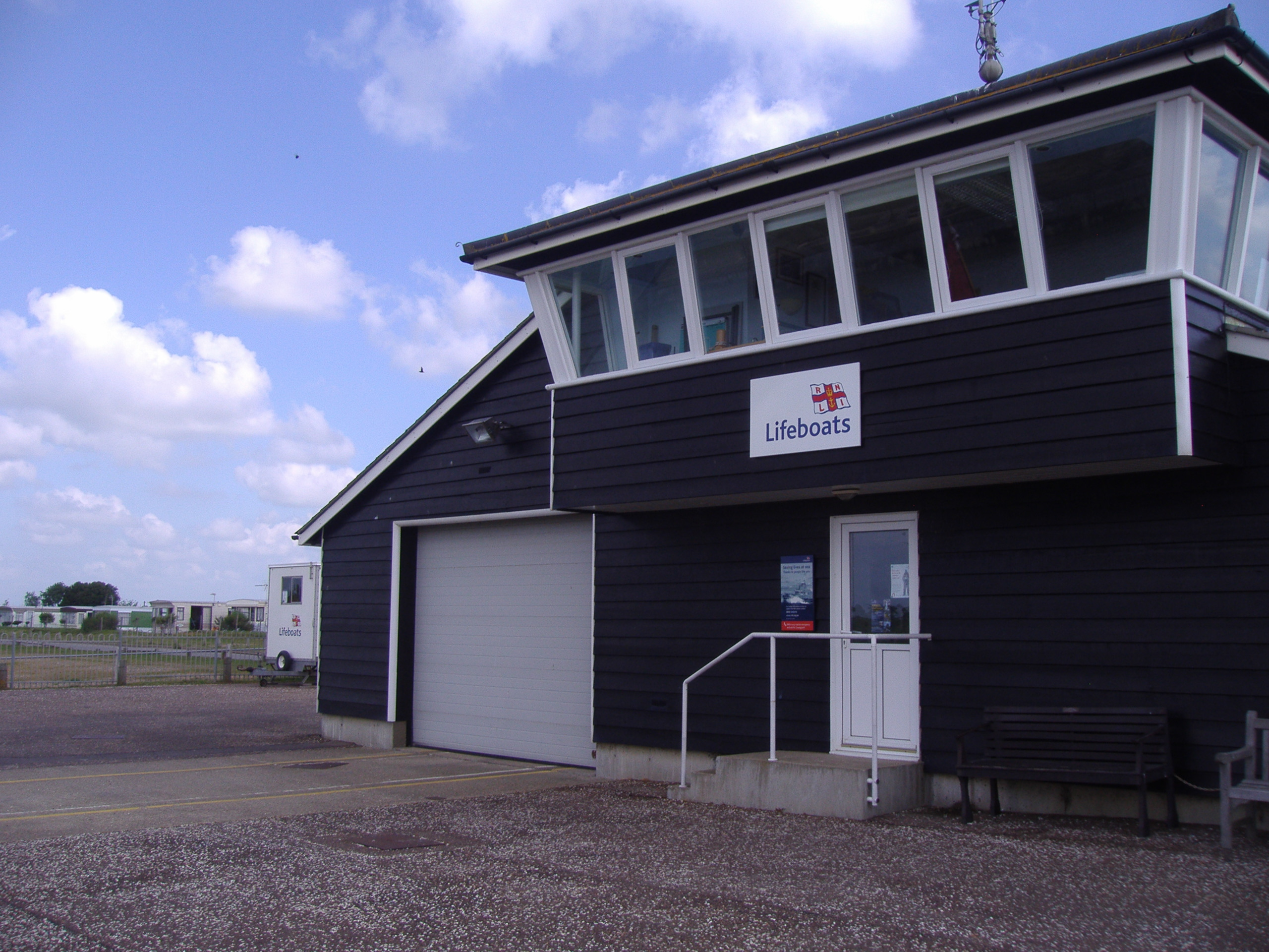 The lifeboat station in Southwold, Suffolk